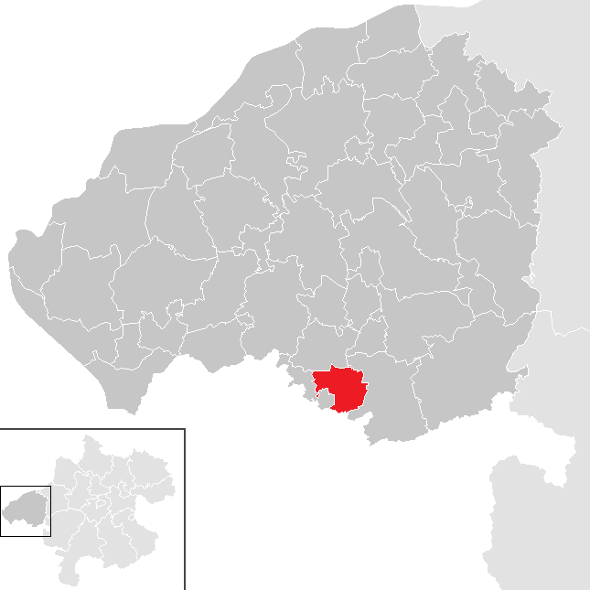 district Braunau am Inn